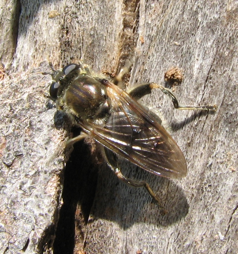 Female syrphid fly, Brachypalpus oarus. Pennypack Restoration Trust, Montgomery County, Pennsylvania, USA.